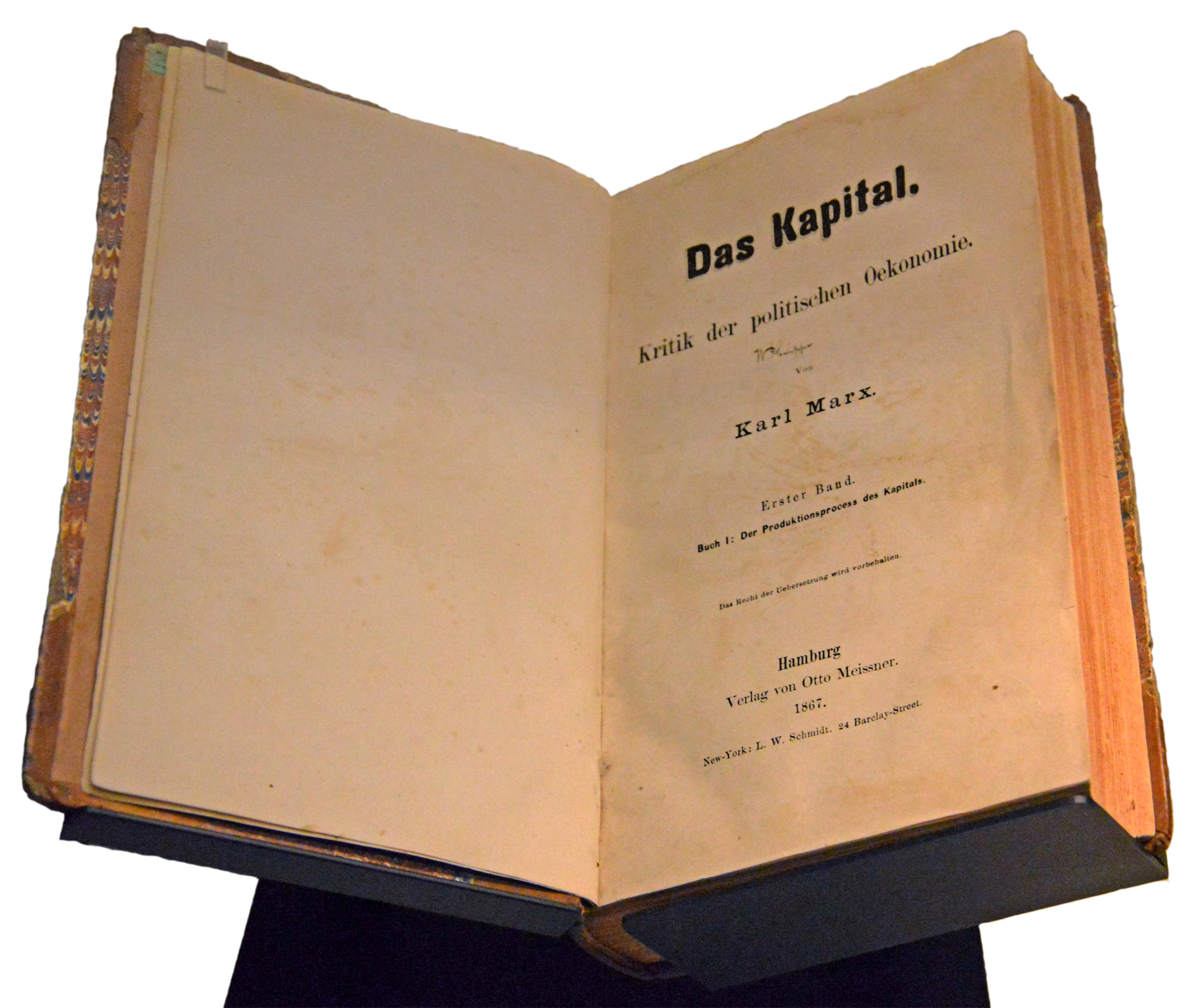 An copy of Karl Marx's 1867 "Das Kapital" on display in the Deutsches Historisches Museum, Berlin.